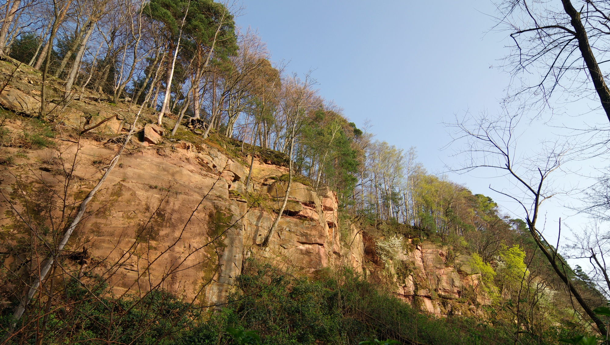 A large quarry on the flanks of mount Eichelberg near Gaggenau where, in the 19th century, red sandstone was extracted for the construction of Fortress Rastatt.